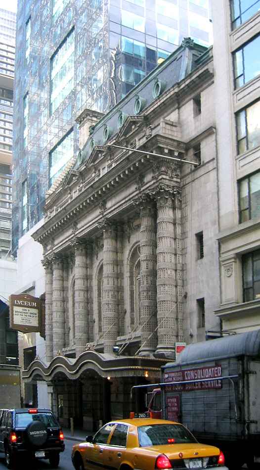 Lyceum Theatre 149 West 45th Street, Manhattan, New York City. See also File:Lyceum Theatre facade NYC 2003.jpg.